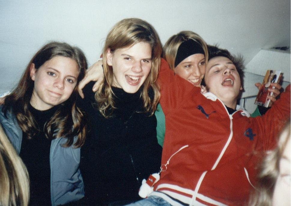 Cast members of the German teen tv series "Fabrixx" having fun (Anne Reuter, Alexandra Staib, Laura Müller, Franz Dinda)